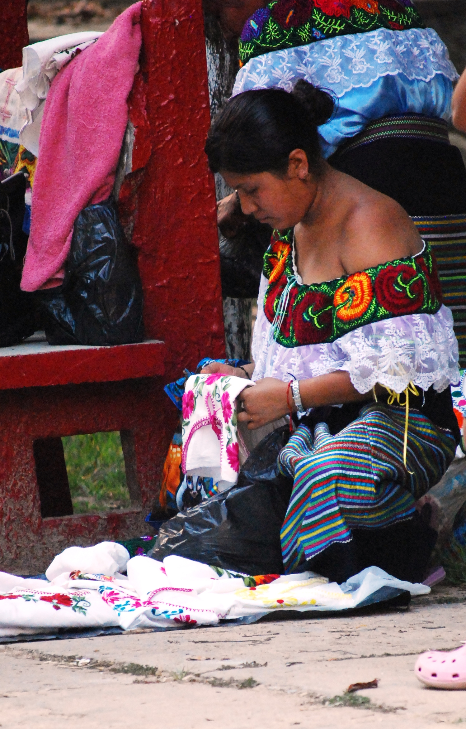 Indigenous woman in the atrium of the parish church of Palenque, Chiapas, Mexico